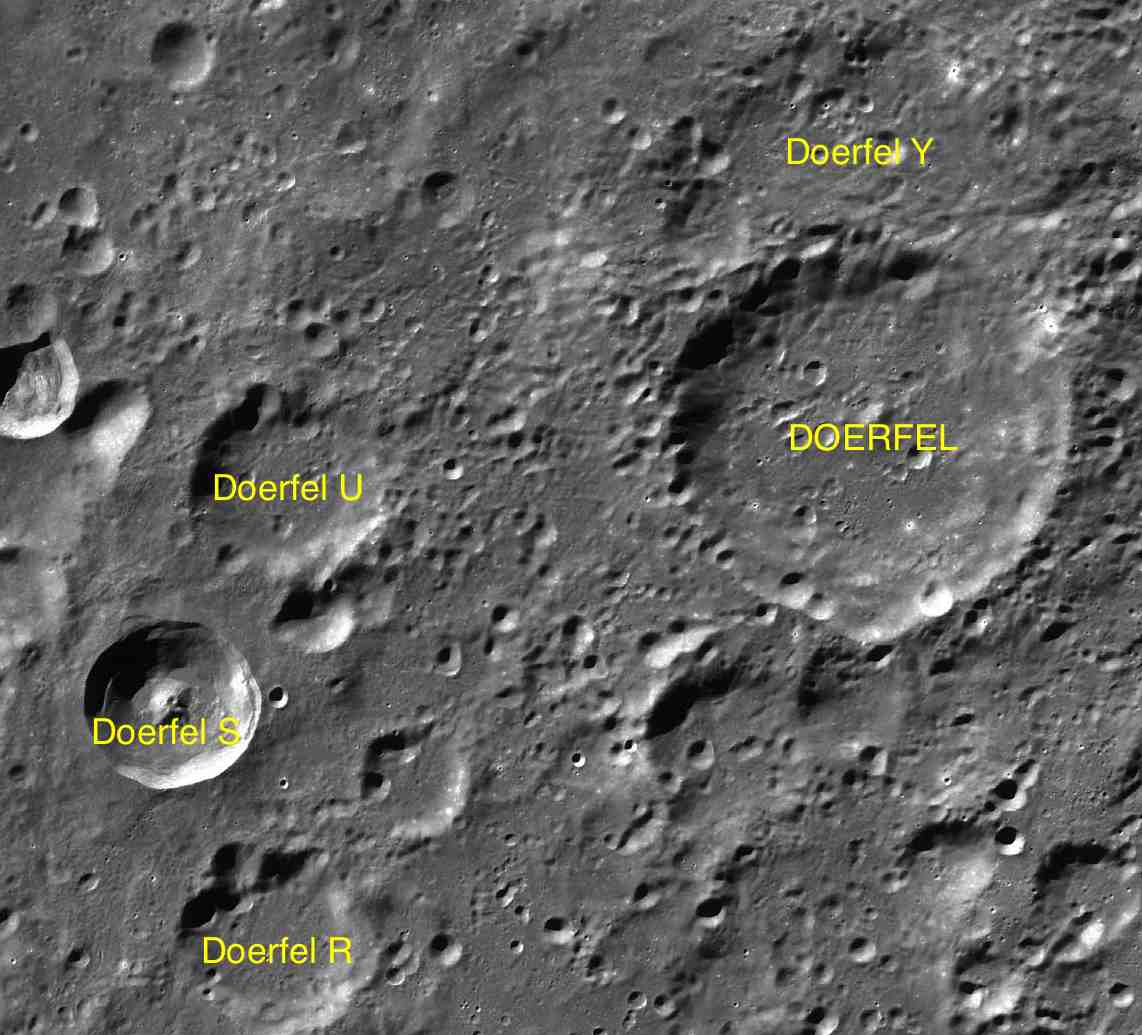 Part of the chart LAC-143 used for the presentation